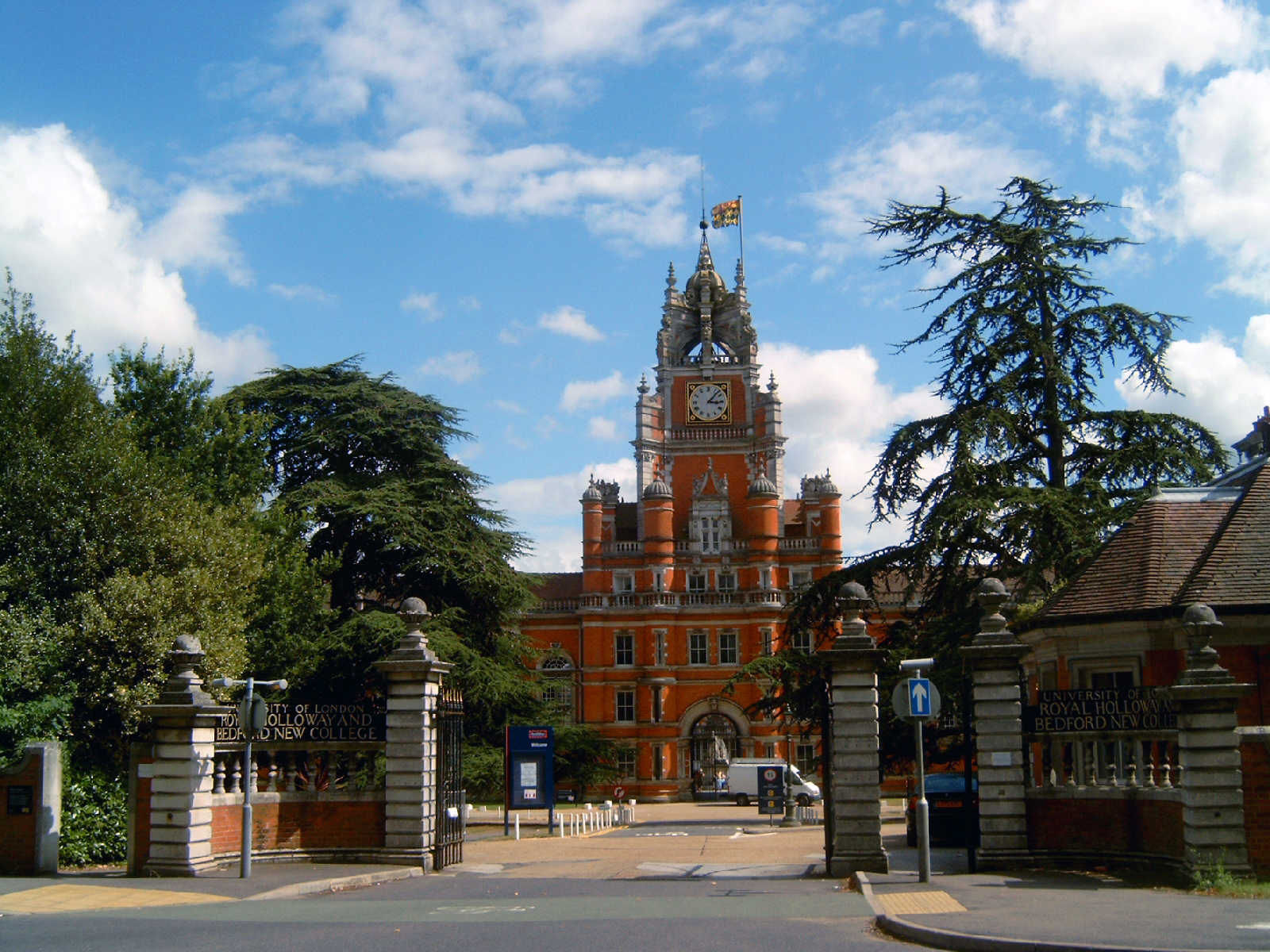 The main gate of Royal Holloway, University of London. Taken by me in July 2006. Zverzia 18:26, 25 August 2006 (UTC)